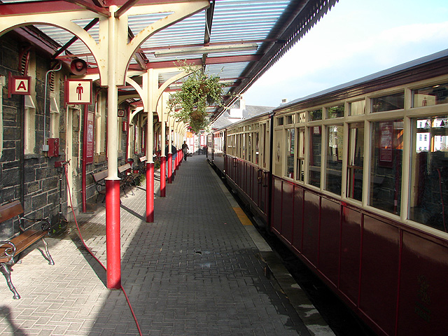 Carriages waiting at Porthmadog Harbour railway station.